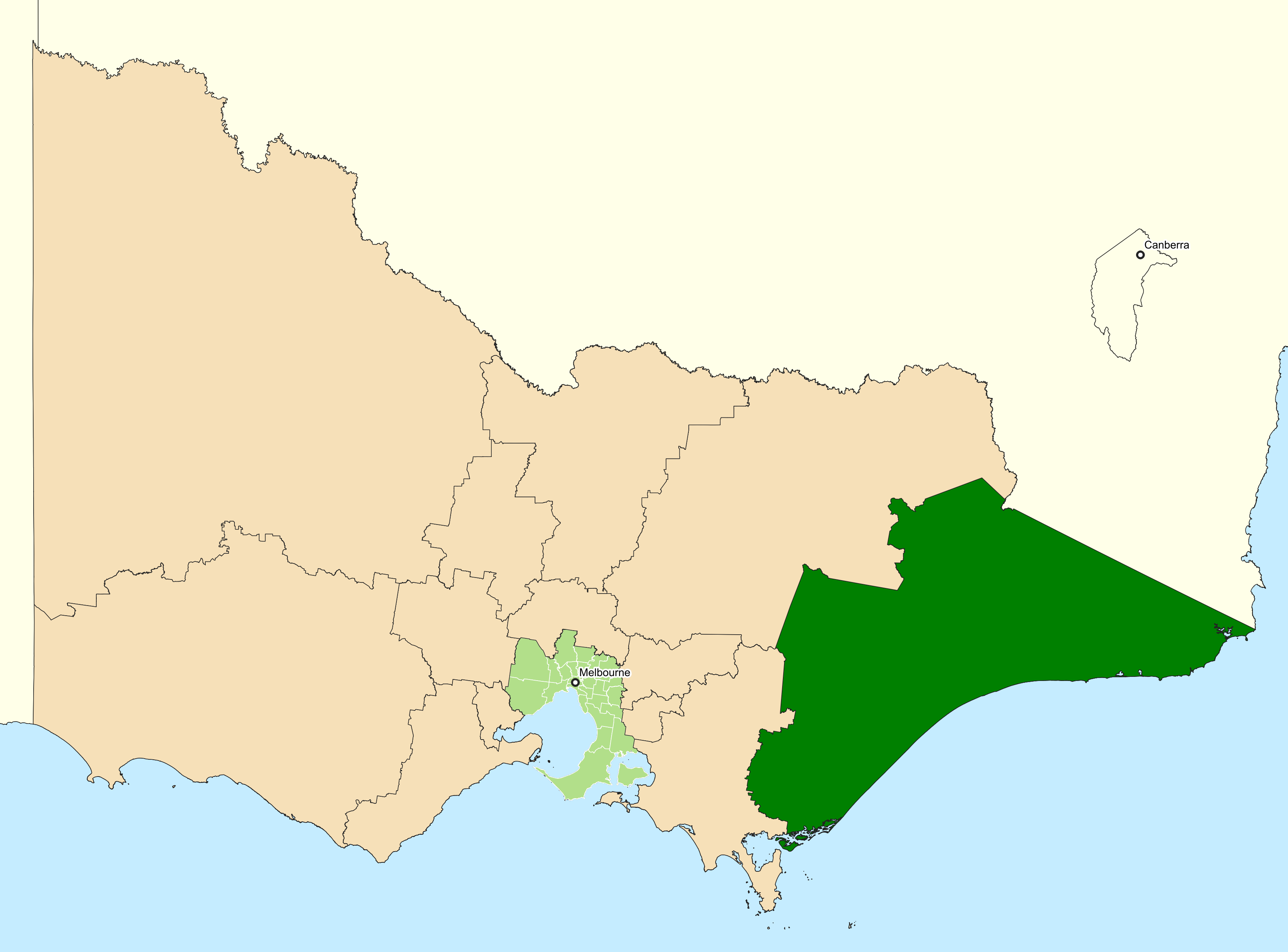 Location of the Australian federal electoral division of Gippsland (dark green) in Victoria as of the 2019 Australian federal election. Incorporates or developed using Administrative Boundaries ©PSMA Australia Limited licensed by the Commonwealth of Australia under Creative Commons Attribution 4.0 International licence (CC BY 4.0).